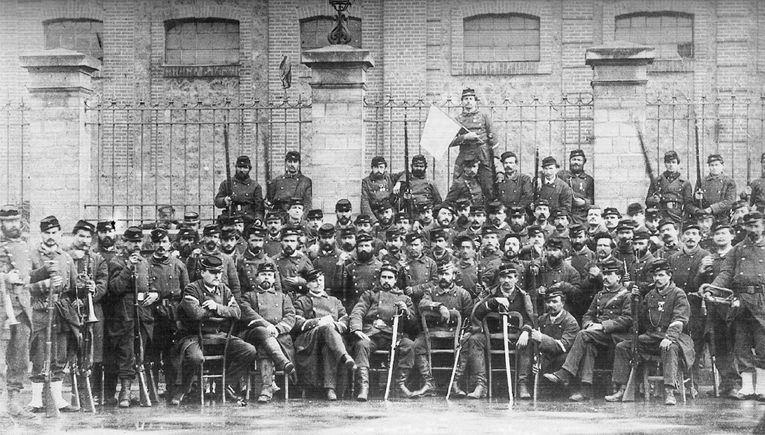 A company of the french Garde Nationale